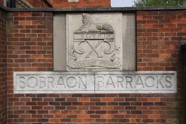 Sobraon Barracks. Sign at the historic HQ of the Lincolnshire Regiment 89174